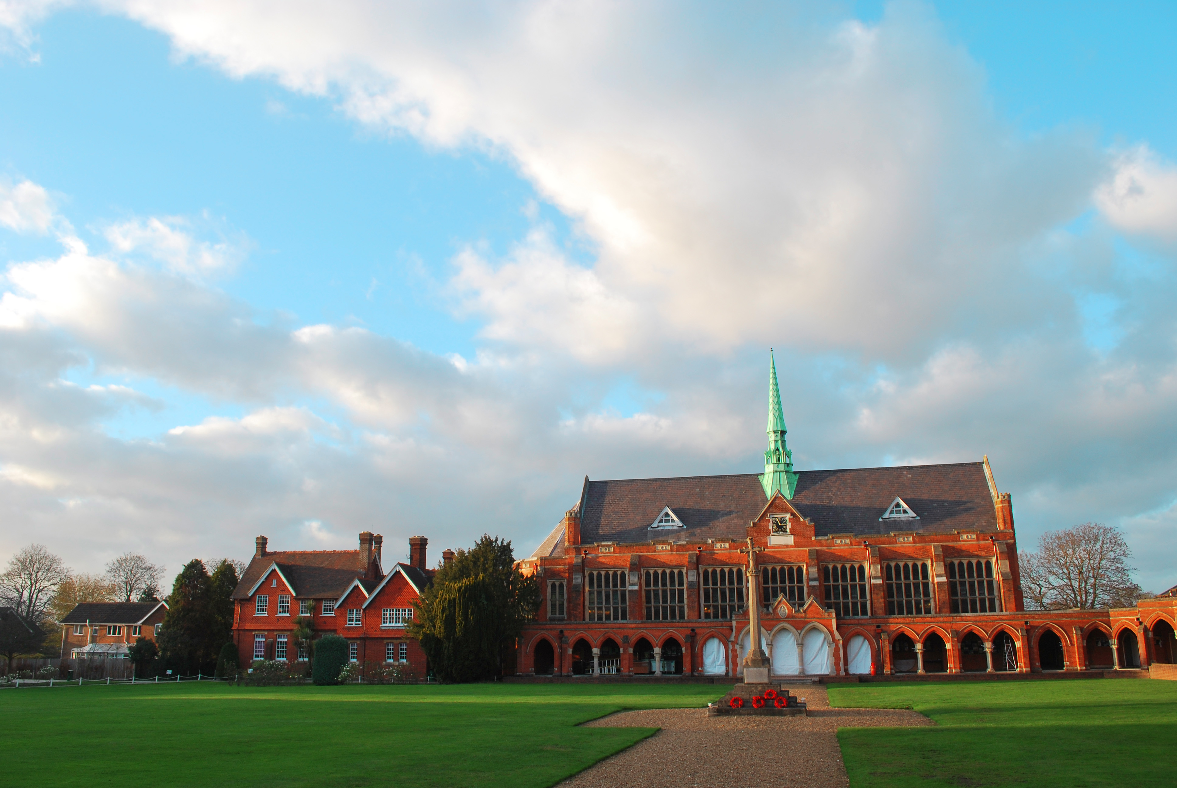 I took this photo at St John's School, on my own camera and own the whole rights to this photo.